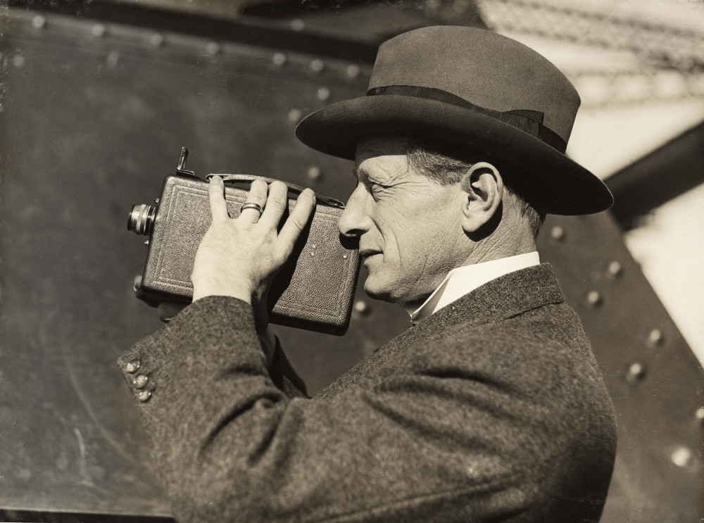 Title: Mr Ralph Freeman, Sydney Harbour Bridge Dated: c.1931 Digital ID: 12685_a007_a00704_8730000054r Rights: No known copyright restrictions We'd love to hear from you if you use our photos/documents. Many other photos in our collection are available to view and browse on our website using Photo Investigator.